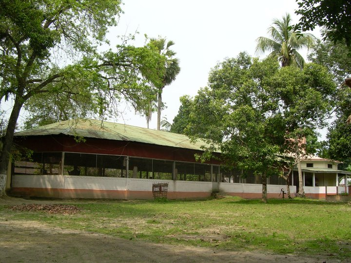 Gorhmur Xatra, Majuli